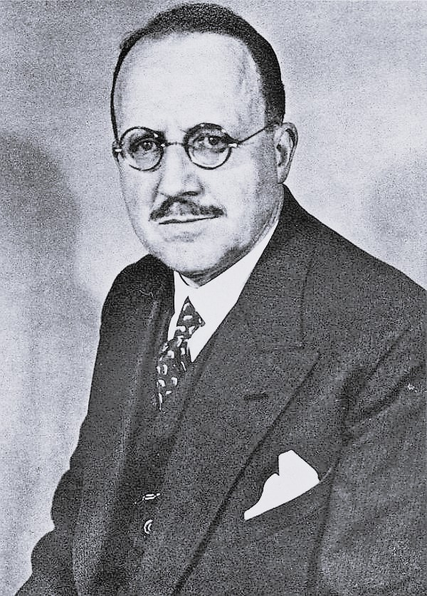 Rudolf Keibel (1872-1946), jurist, member of the city parliament of the Hanseatic City of Lübeck